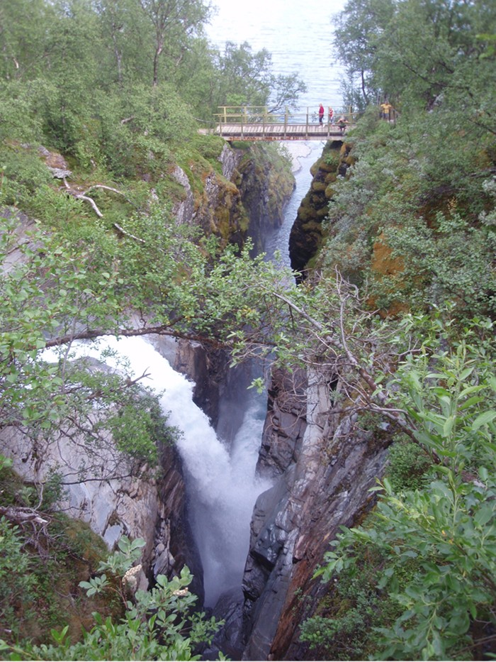 Silverfallet (the silver fall) in Kiruna municipality.